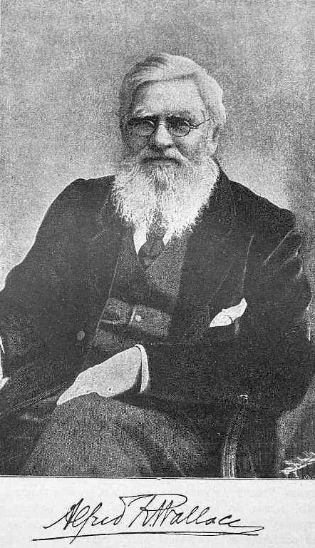 Alfred Russel Wallace